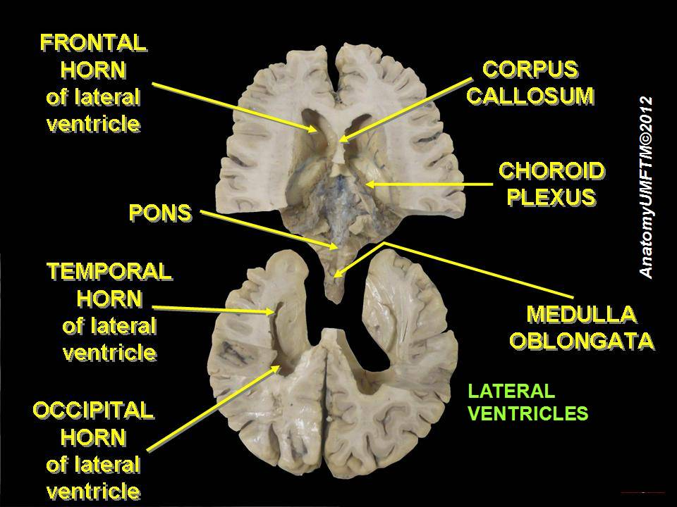 Anatomical dissection